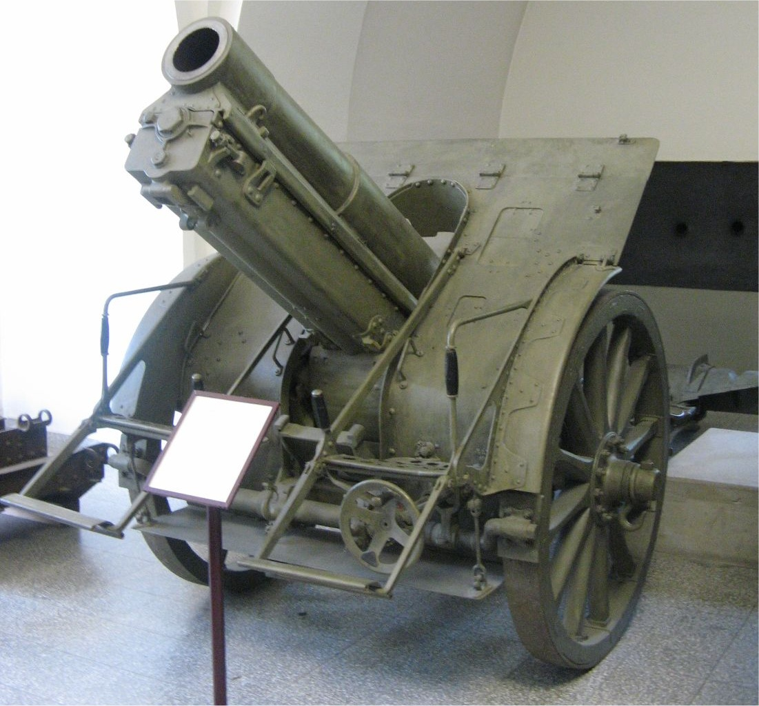 Skoda 15cm field howitzer, used by the austro-hungarian army in world war one